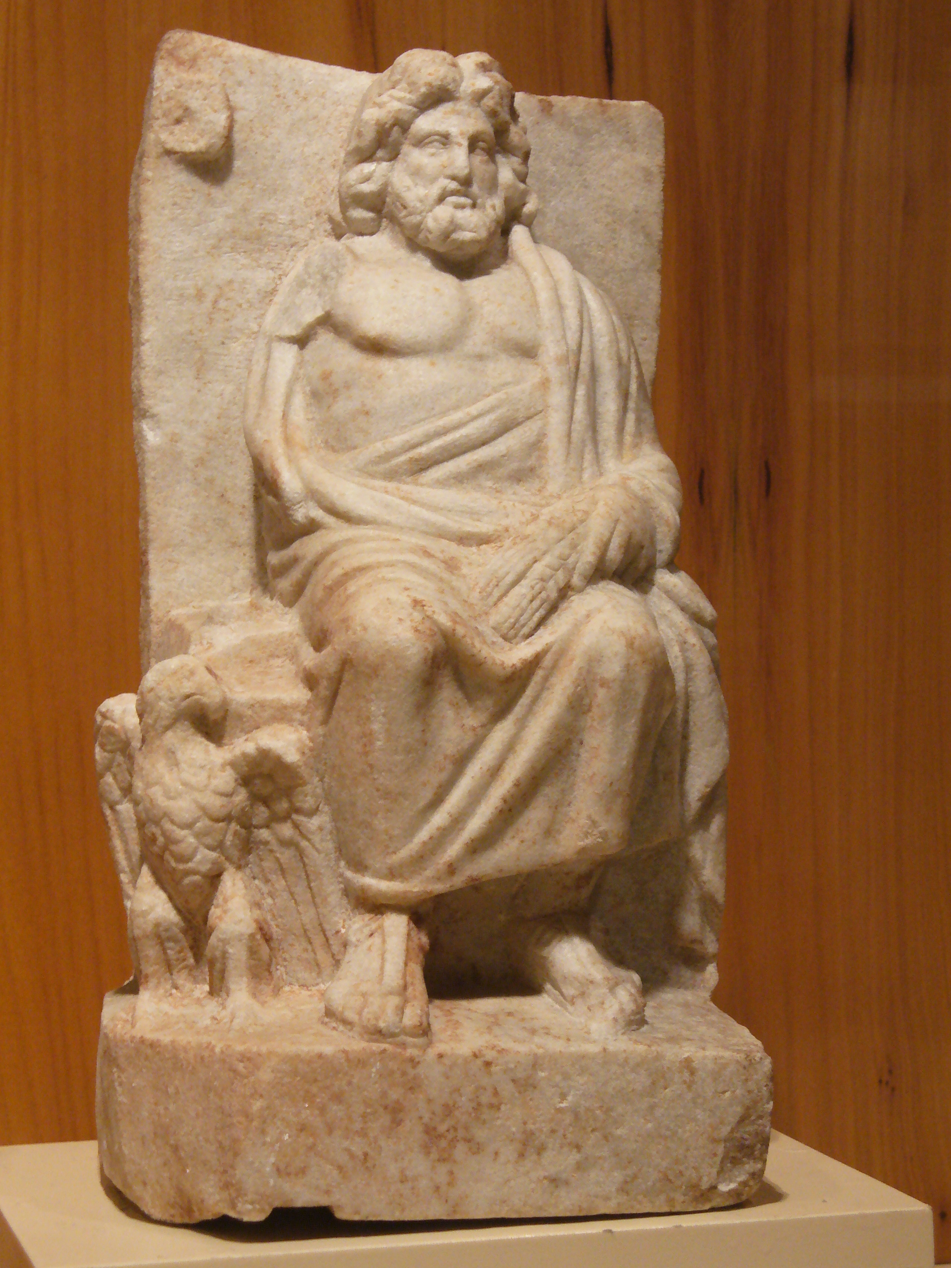 A representation of the god Zeus (Jupiter) from Nicomedia in Bithynia, now at the İstanbul Archaeological Museum. QuartierLatin1968 17:53, 6 December 2006 (UTC)